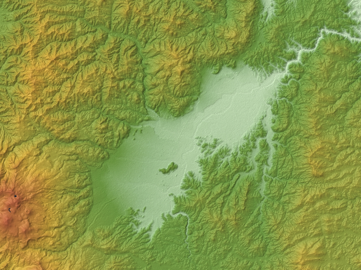 Fukushima Basin in Fukushima Prefecture, Honshu, Japan.